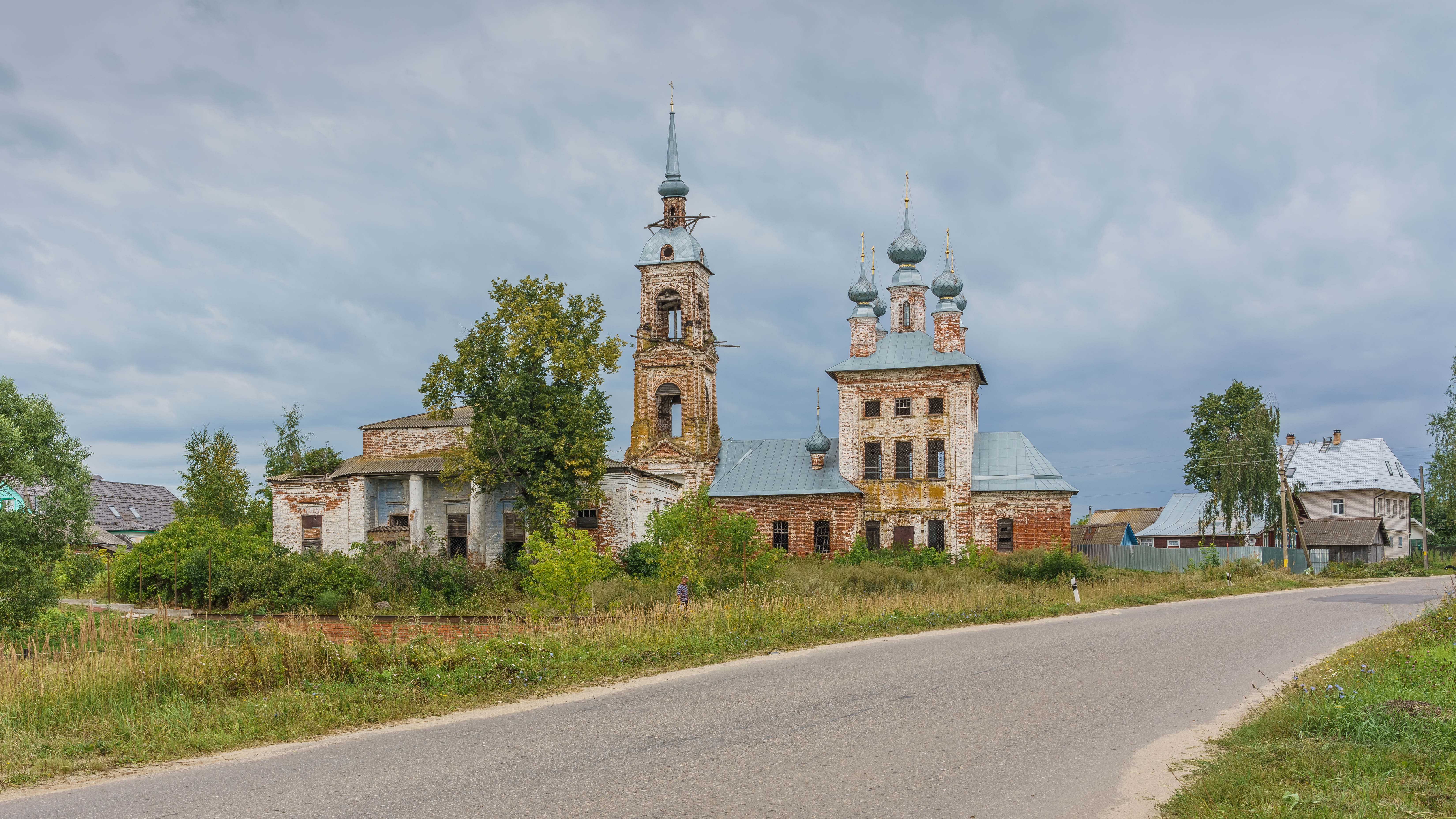 Ensemble of churches in Vvedenye, Ivanovo Oblast, Russia